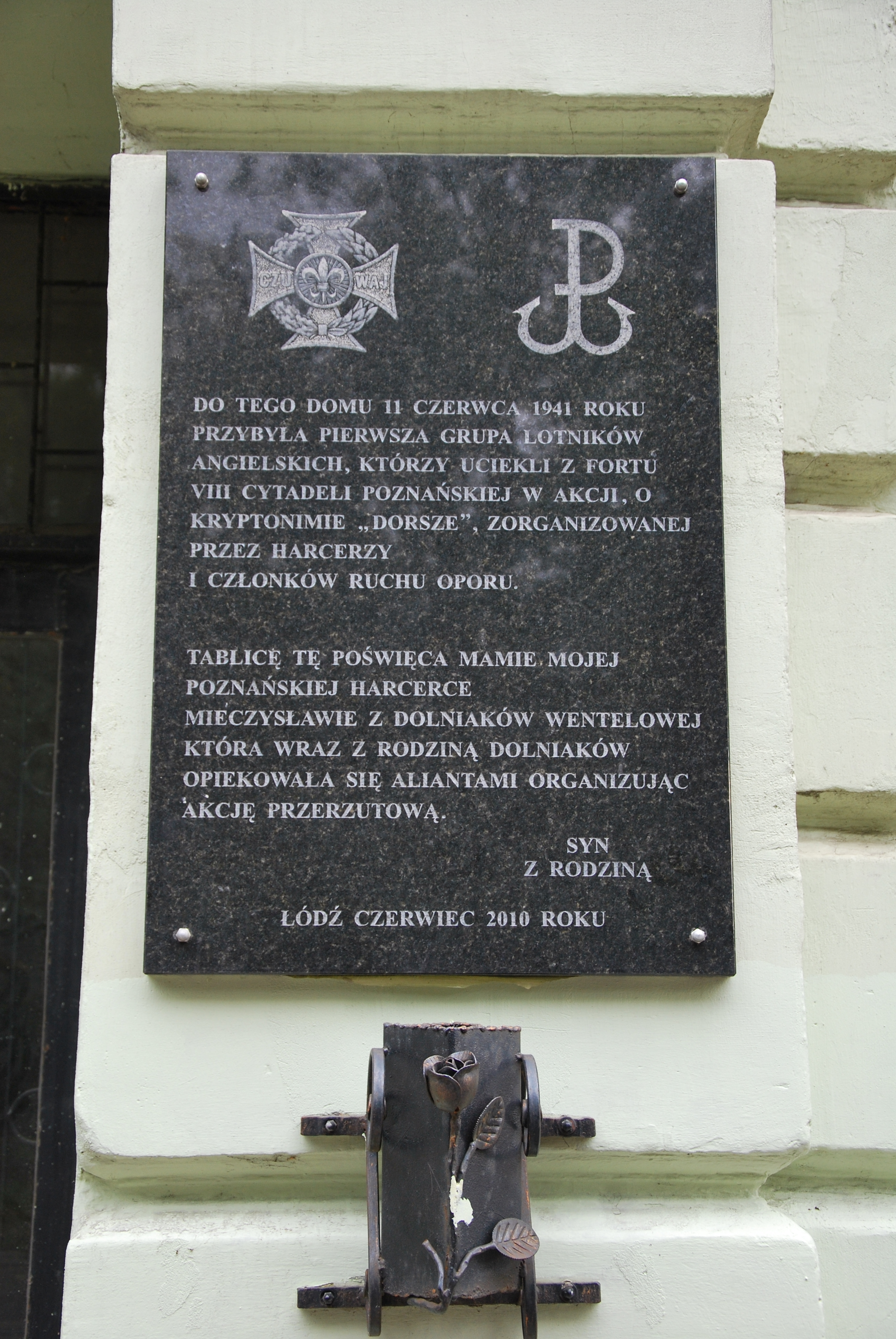 Plaque about british pilots, Łódź 9 Przybyszewskiego Street